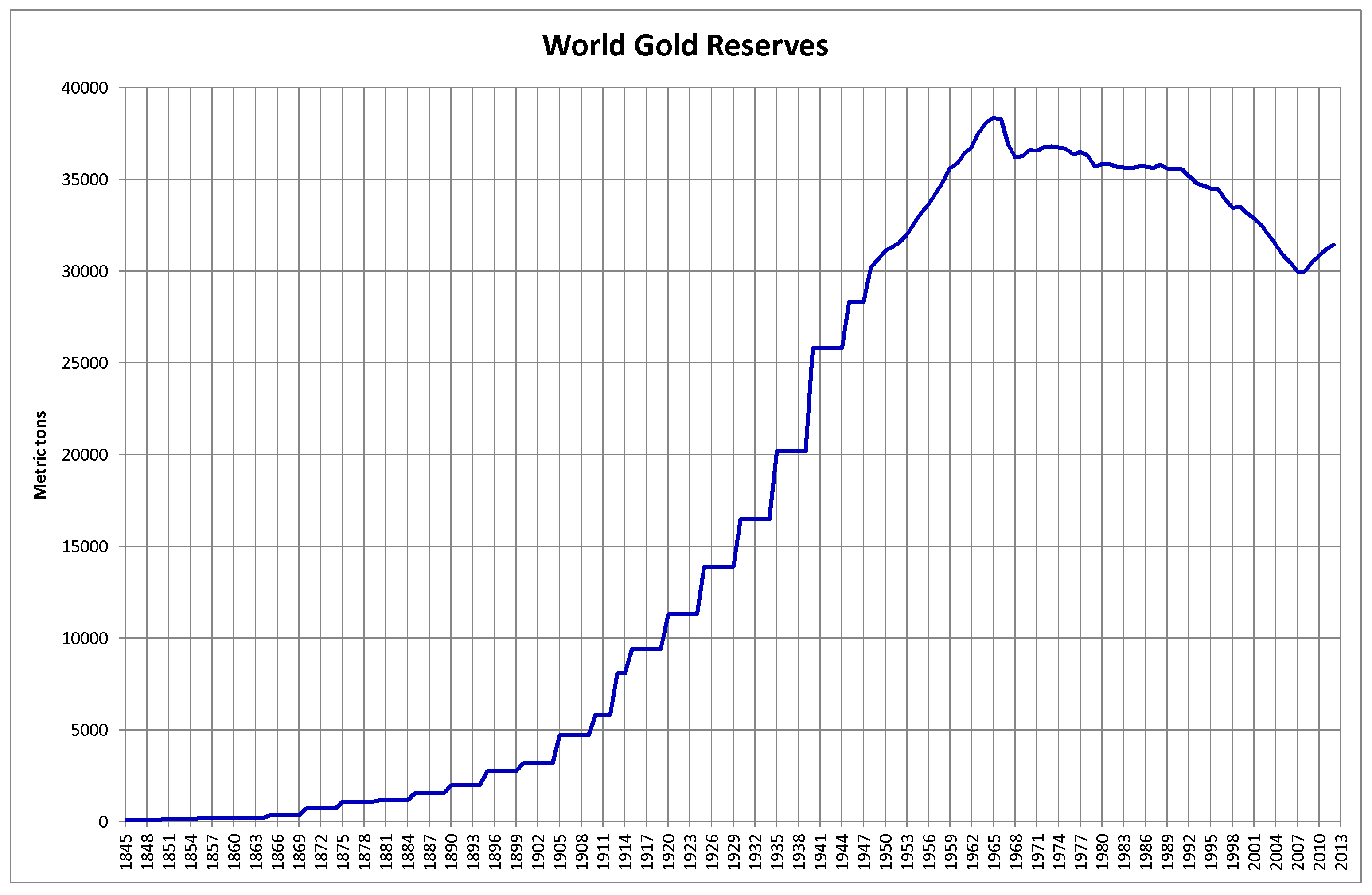 World Gold Reserves from 1845 to 2012, in metric tons